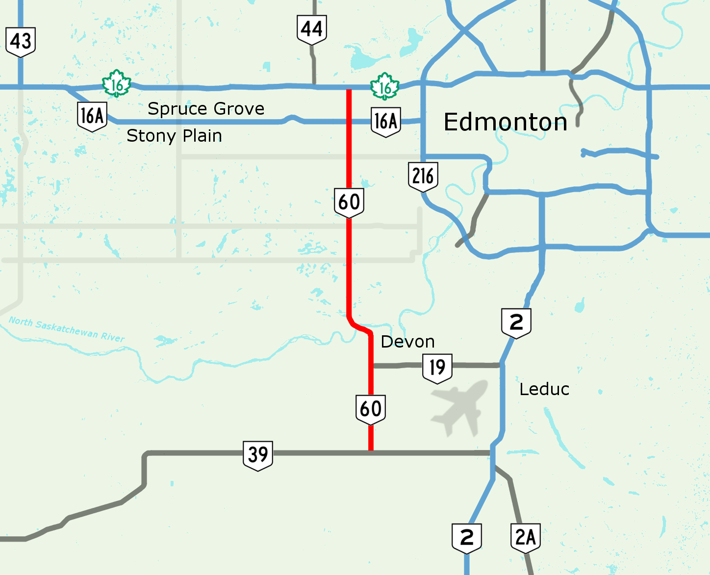 Alignment of Highway 60 in central Alberta.